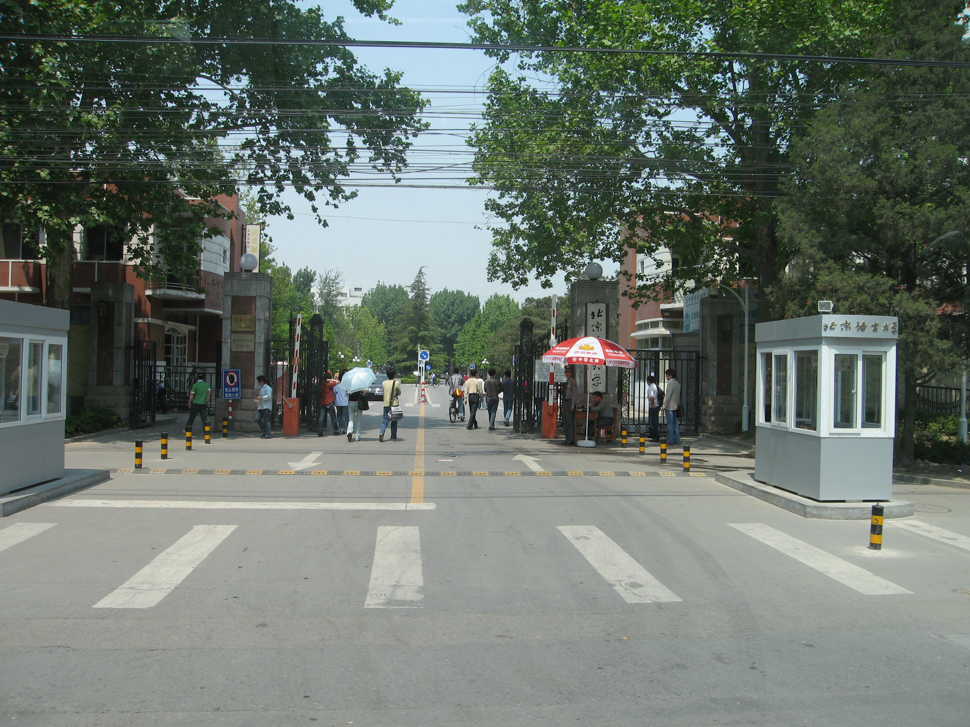 BLCU campus, south gate